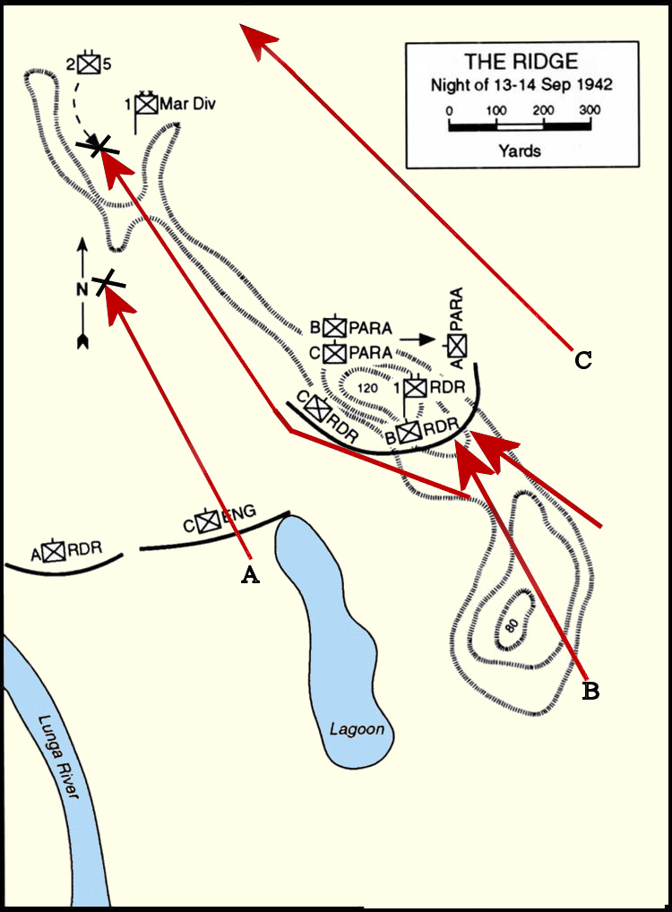 Japanese attack on Edson's Ridge, September 13, 1942. Key: A: Kokusho's battalion attack. B: Tamura's battalion attack. C: Attack by one company of Watanabe's battalion on the airfield. Background taken from [1] (which is a U.S. government public domain document) and modified by myself, cla68, on July 22, 2006 to add forces battle tracks. Released under the GFDL. Original is uploaded in commons as "Image:EdsonsRidgeSep13-14.jpg"